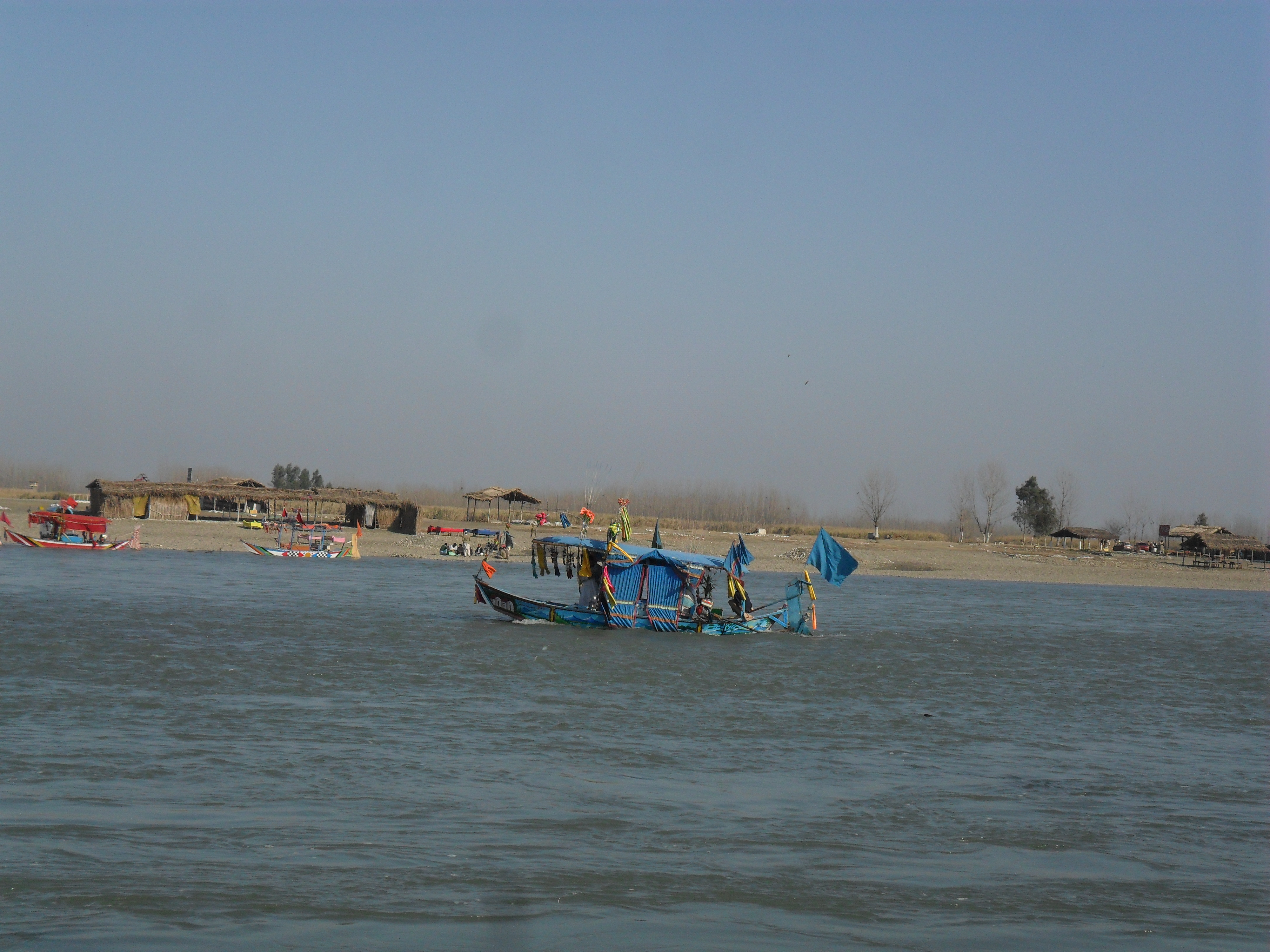 near Shabqadar Peshawar